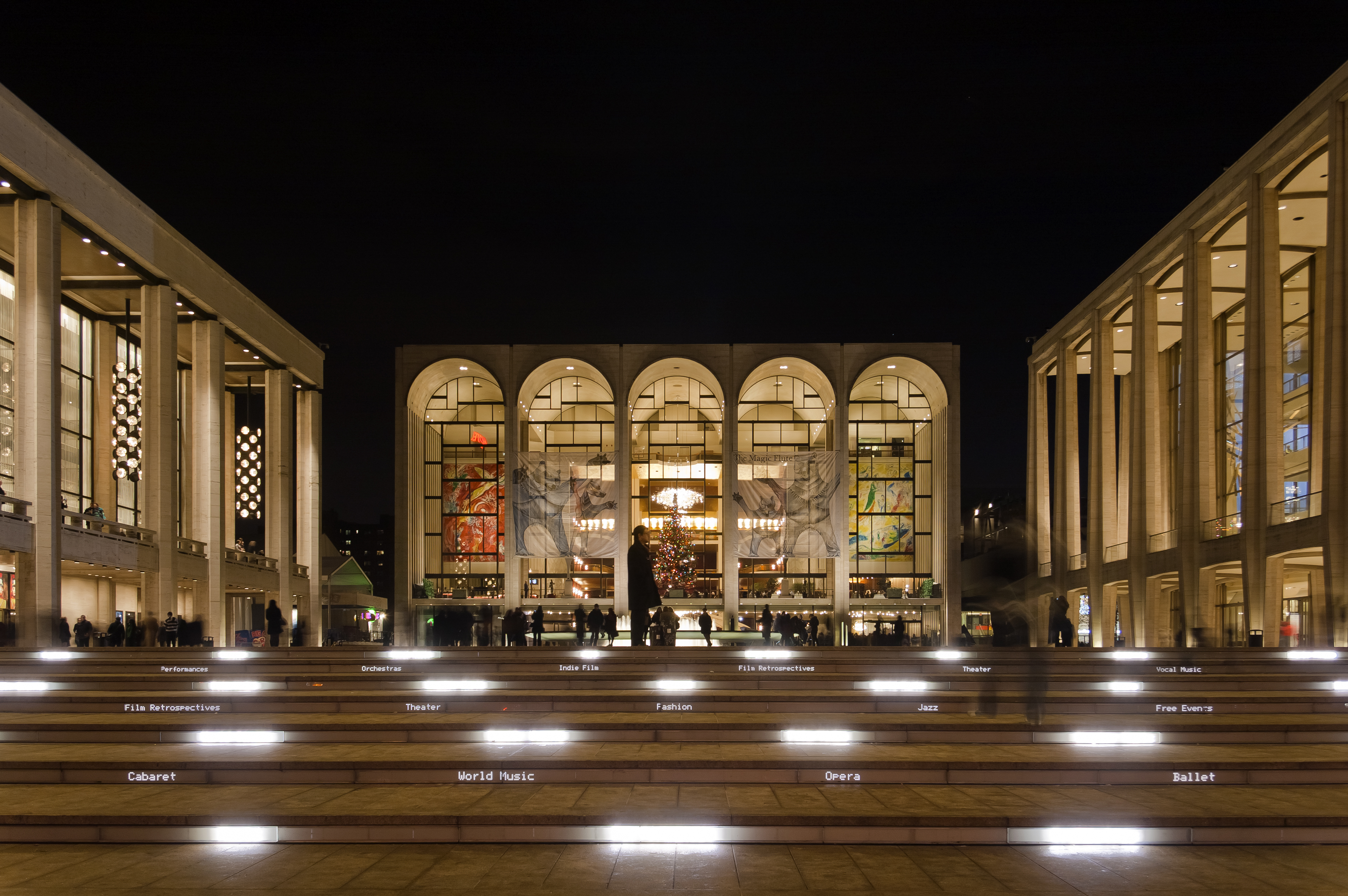 Lincoln Center with LED marquees embedded in the risers of the extended staircase.